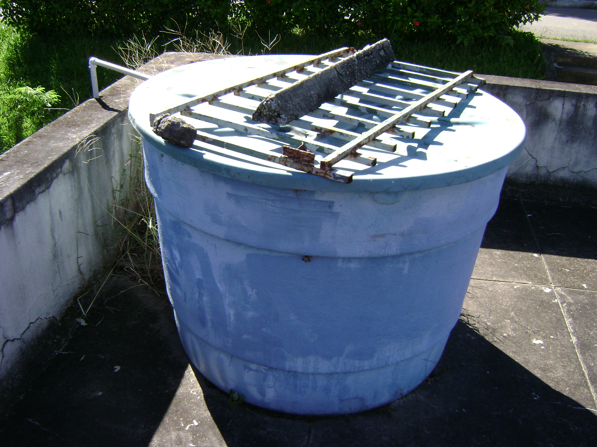 Caixa d'água em um retiro de Minas Gerais, Brasil.